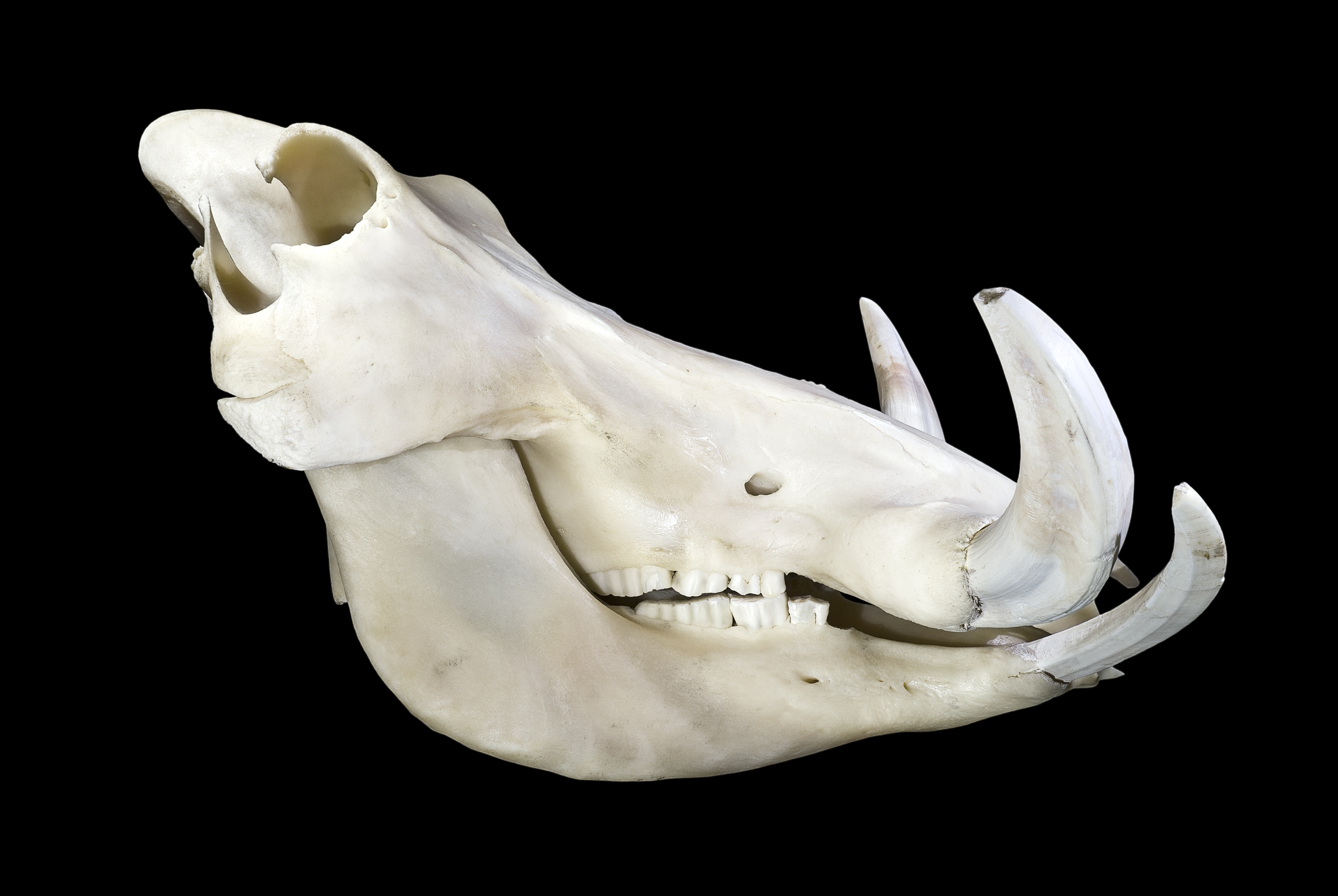 Skull of Warthog Phacochoerus africanus - Male Locality : Senegal Size : 40cm